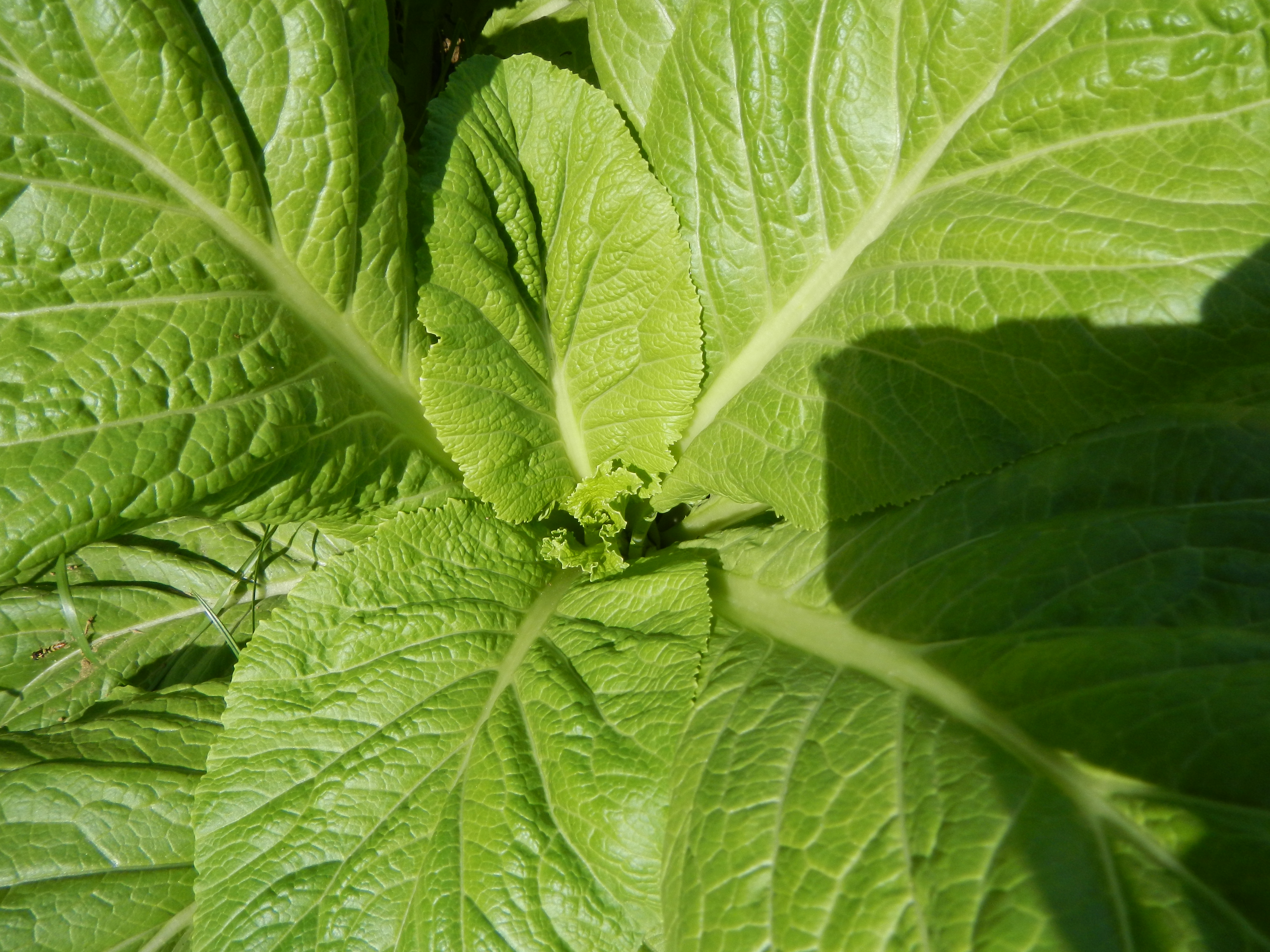 Unidentified mustard plants